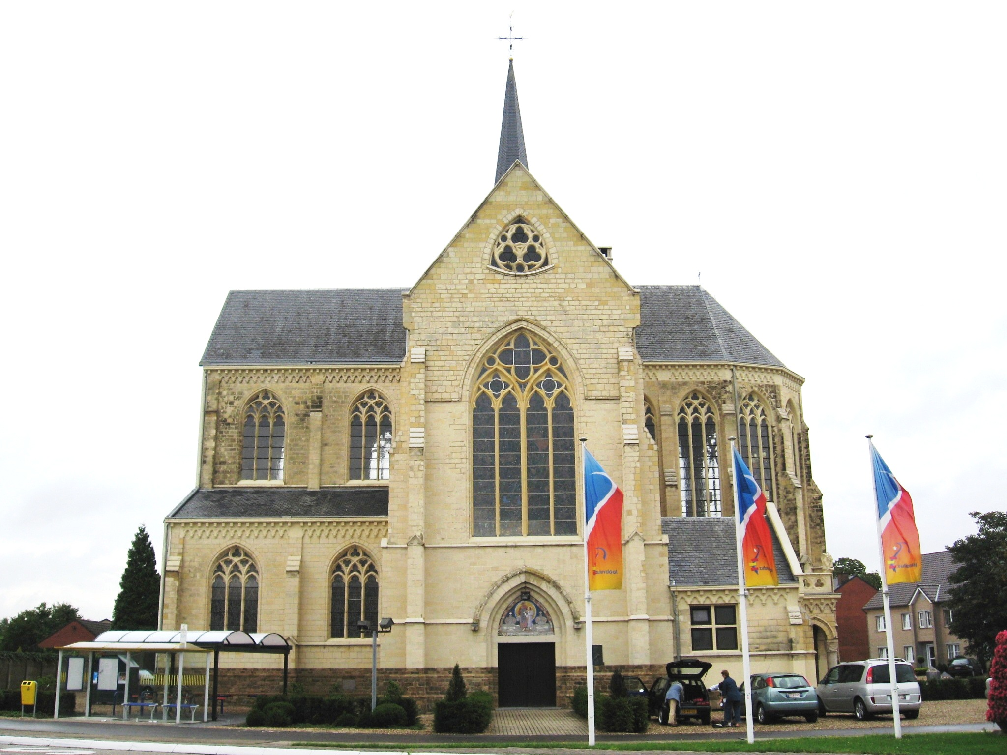 Church of Saint Joseph in Zutendaal (Wiemesmeer), Limburg, Belgium